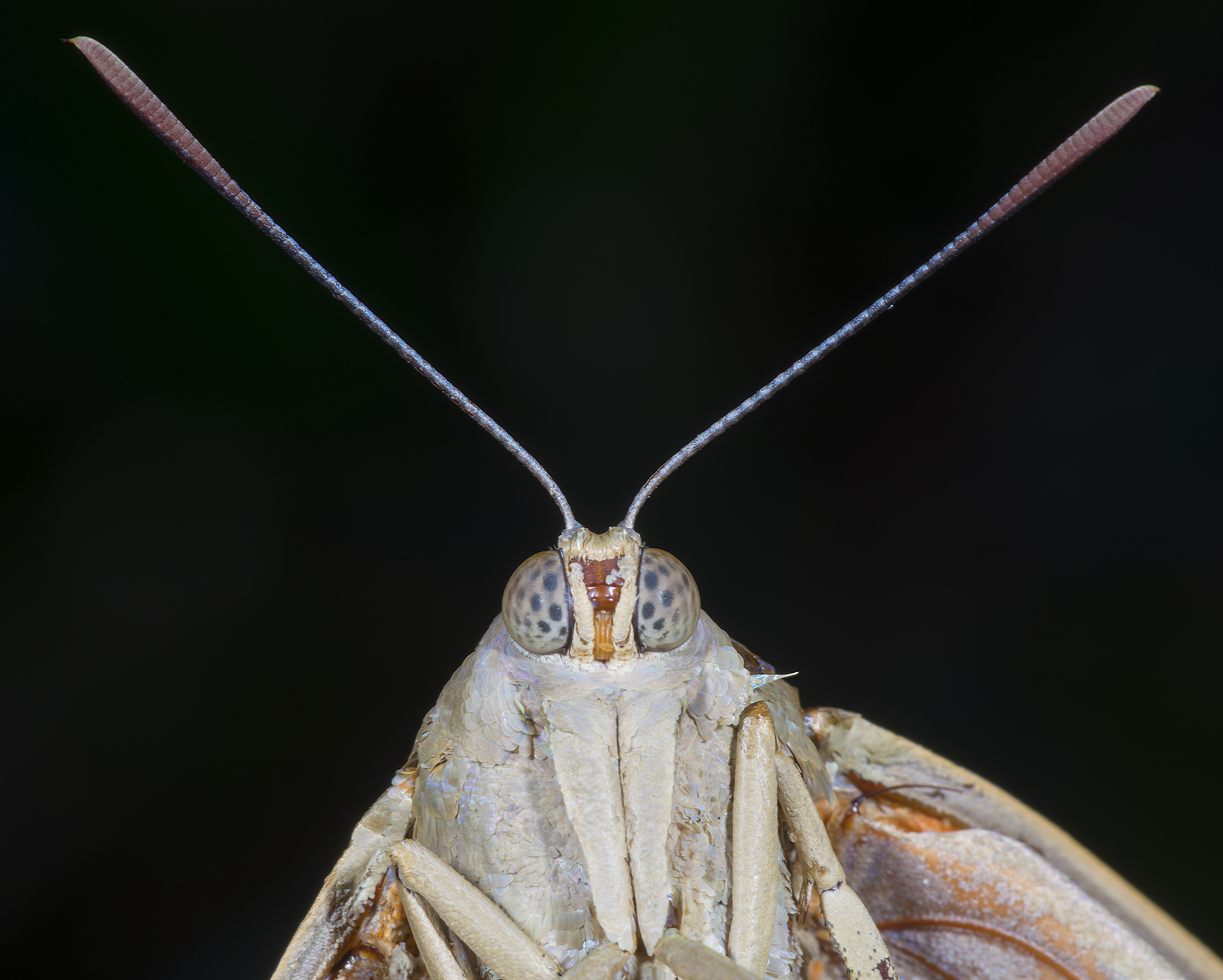 Paysandisia archon